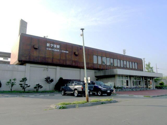 Shin-Yubari Station in Sekisho Line, Japan